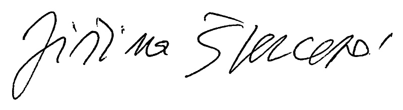 Signature of Czech actress Jiřina Švorcová